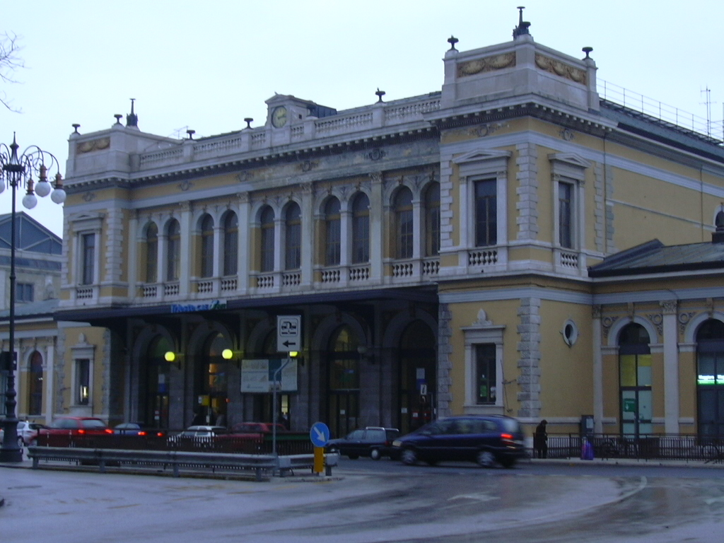 Train station of Trieste.